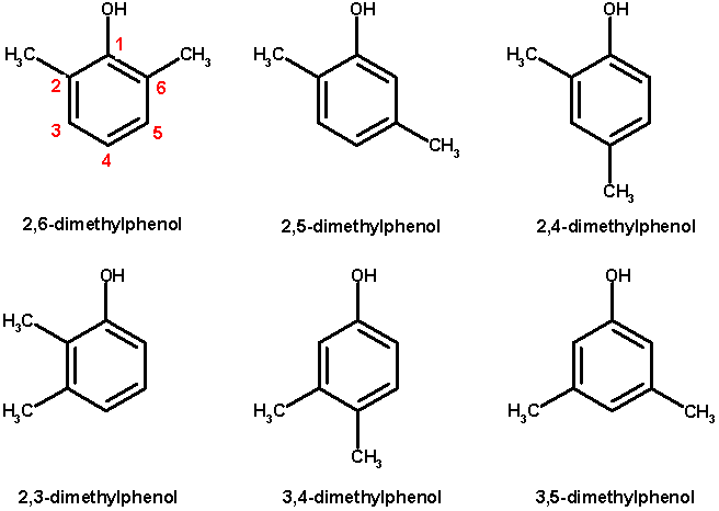 Xylenol